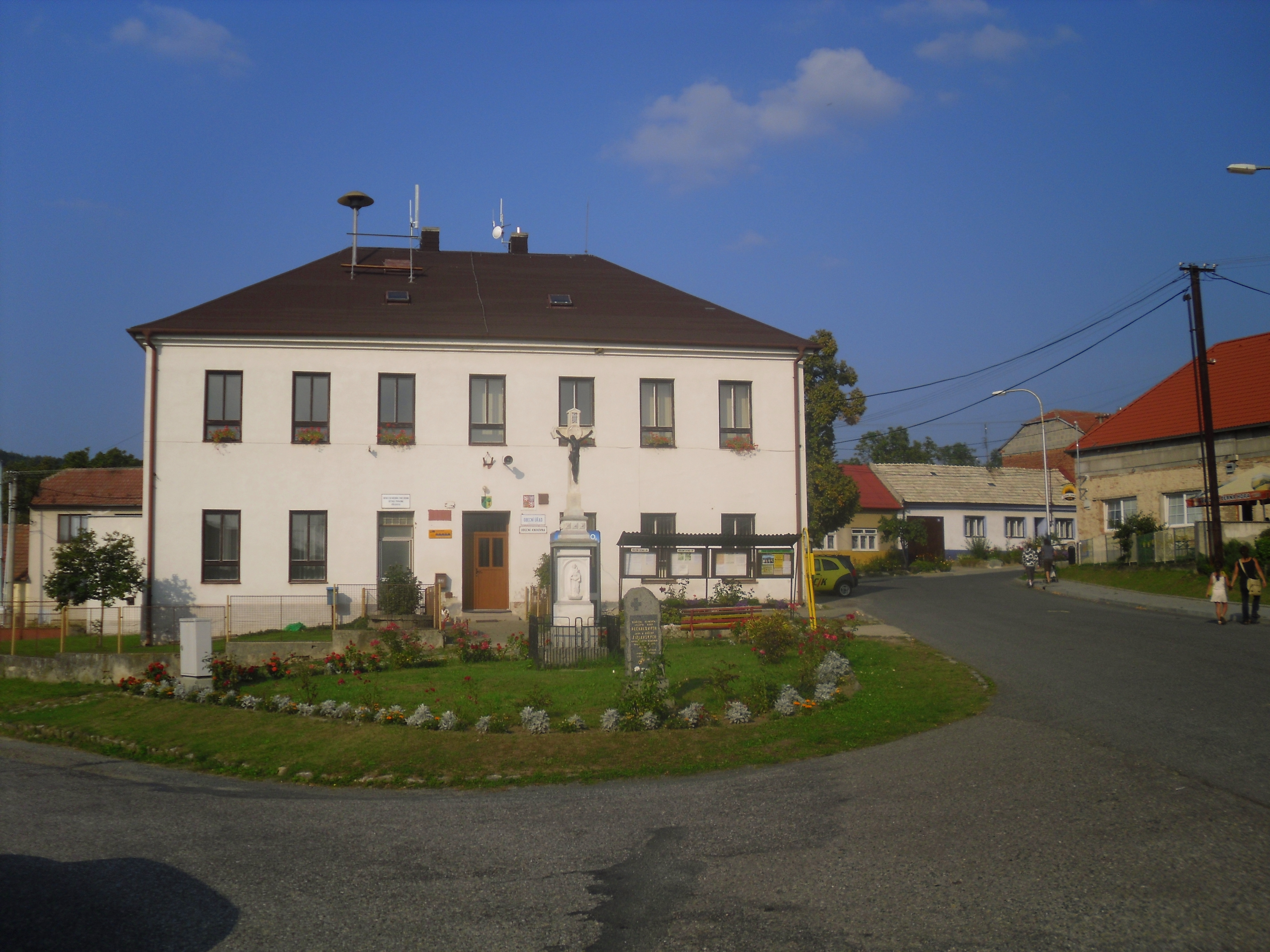 Vřesovice, Hodonín district, Czech Republic - municipal office and post office